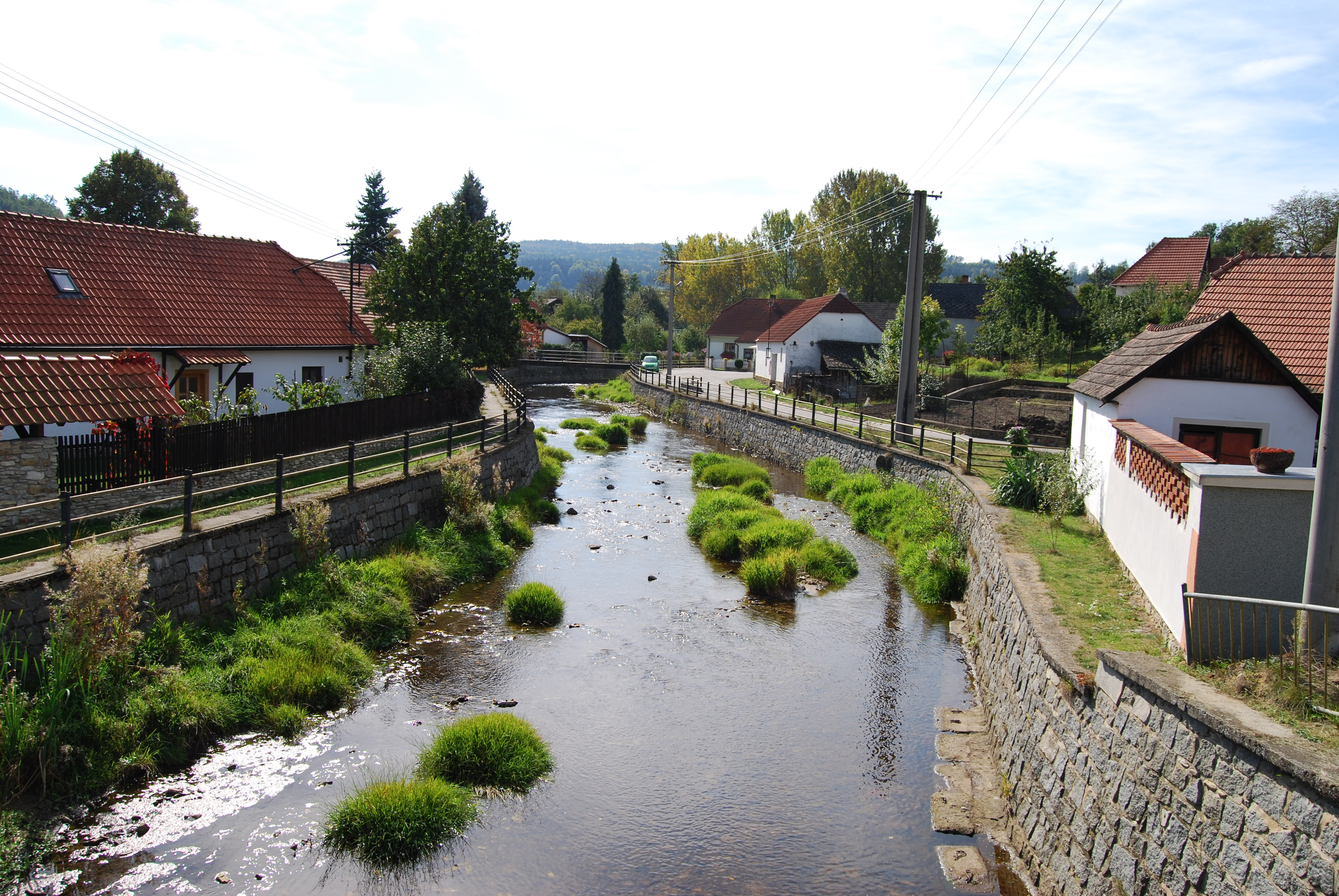 Vitějovice village in Prachatice District, Czech Republic.